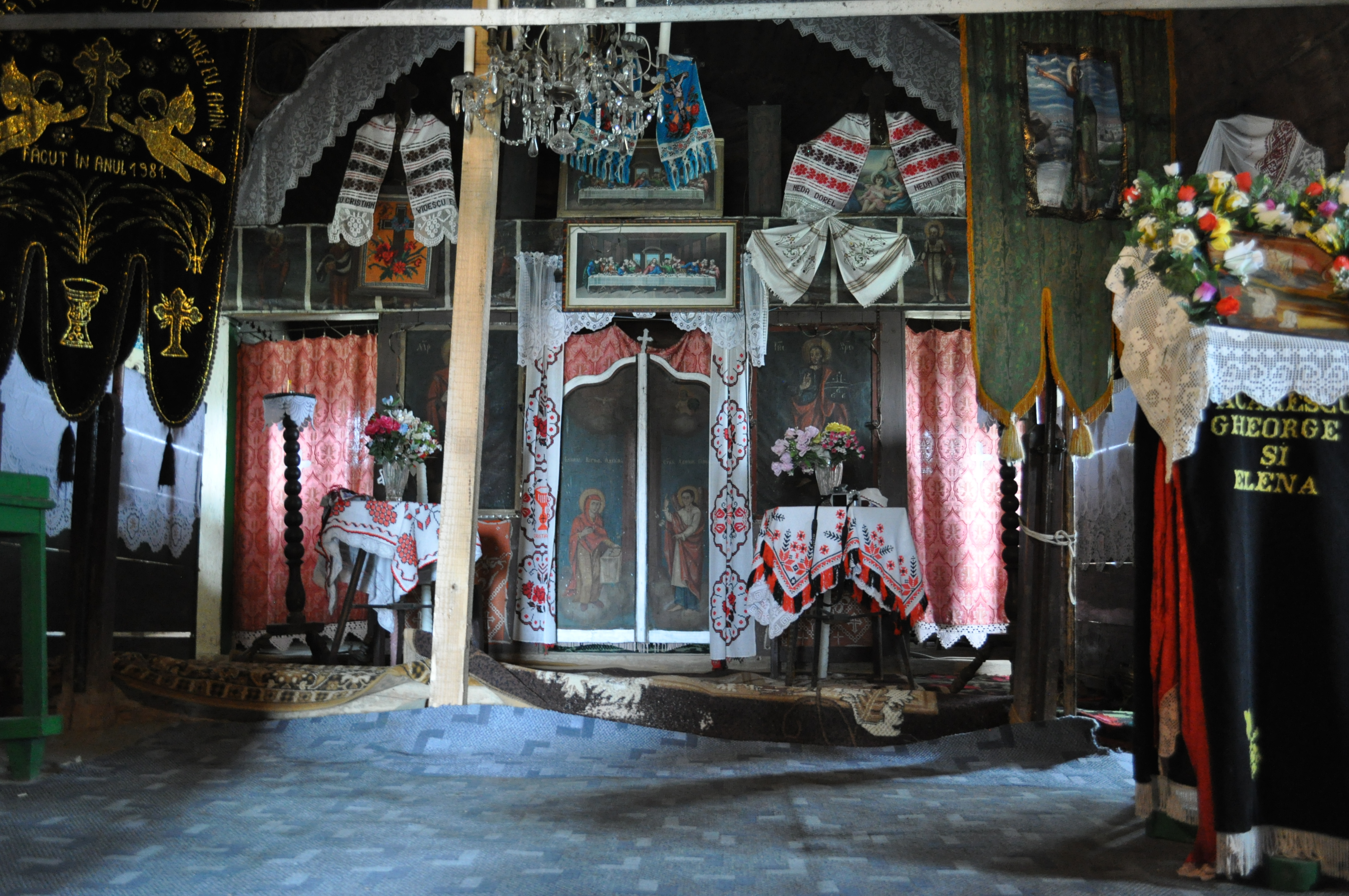 The old wooden church in Bruznic, Arad county, Romania